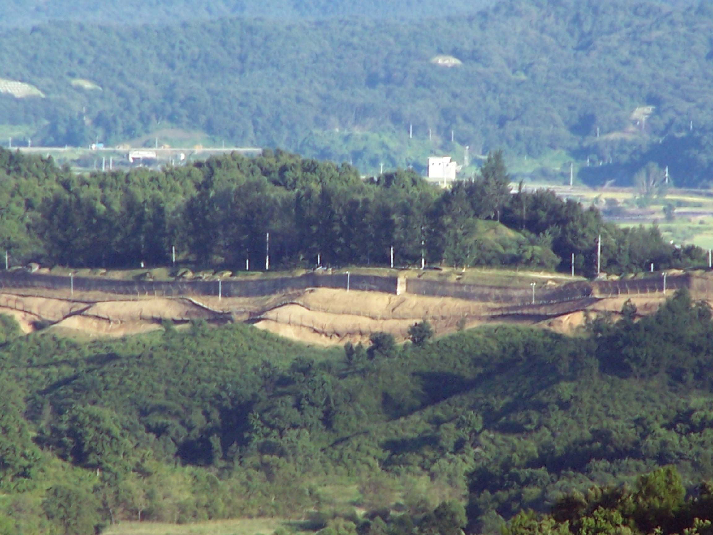 Wall Between North and South Korea, wall on southern side of divide.